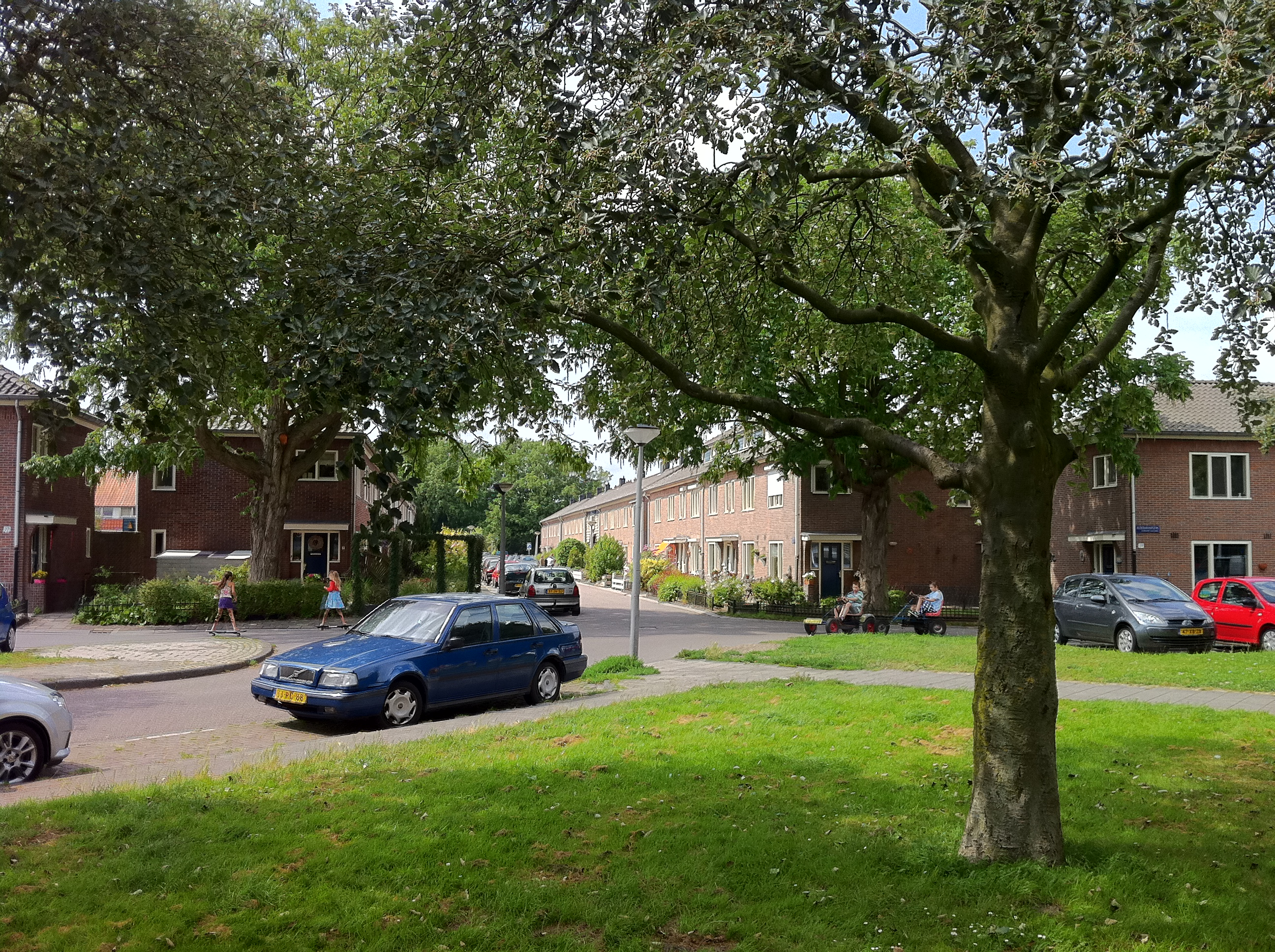 Tuindorp Oostzaan Amsterdam-Noord juli 2011